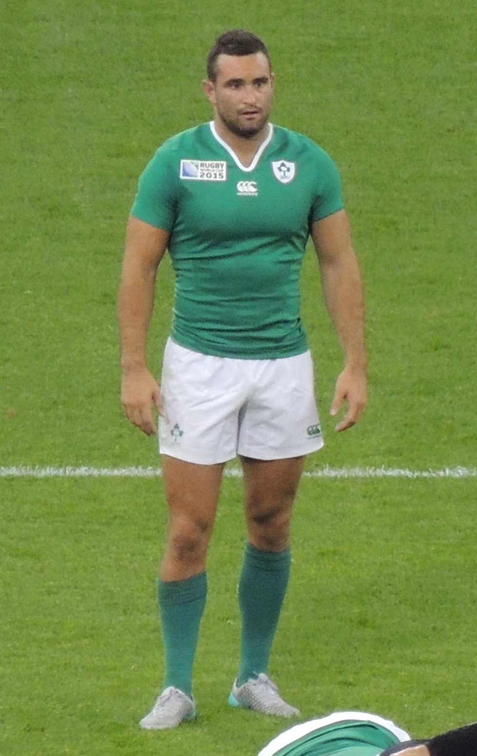 Irish rugby union player Dave Kearney playing in 2015 Rugby World Cup game Ireland vs Canada at Millennium Stadium in Cardiff.